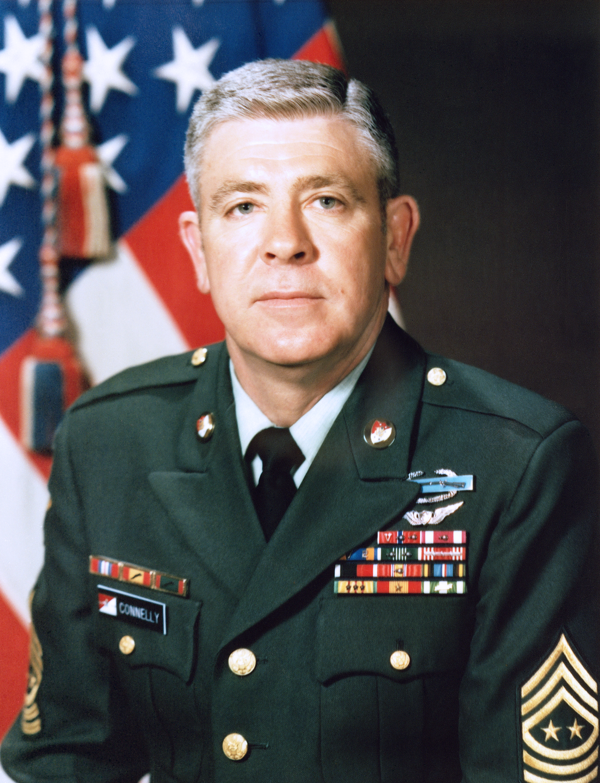 SMA William A. Connelly from [1]